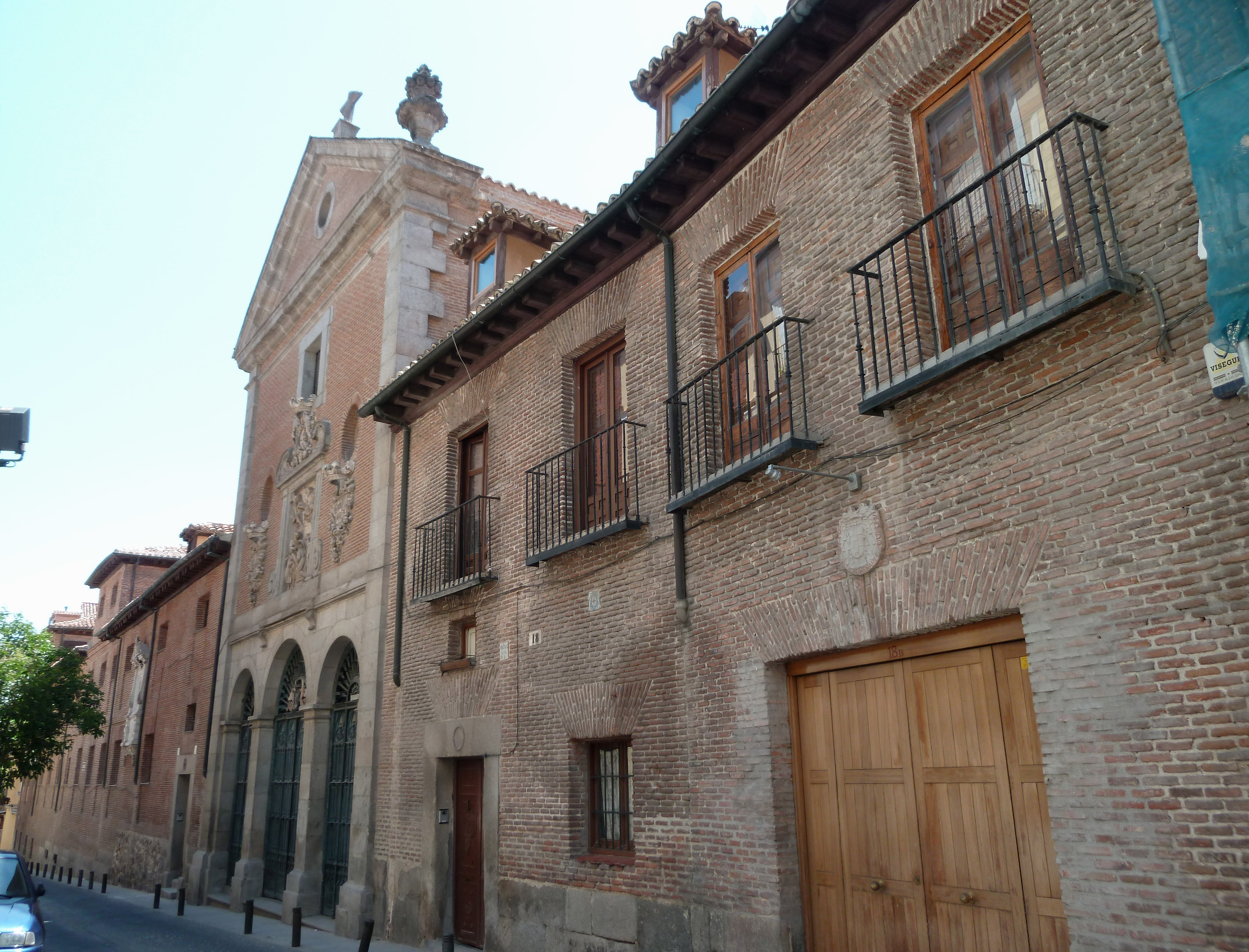 North façade of Convento de las Trinitarias Descalzas (a convent) in Madrid (Spain).